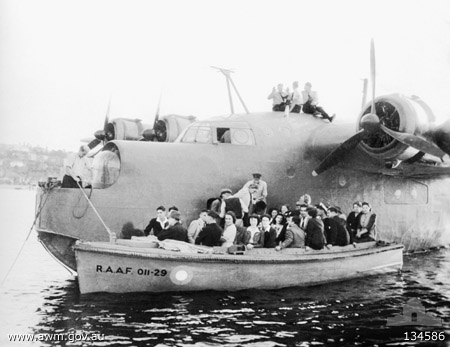 AWM Caption: RAAF MEDIUM DUTY WORK BOAT 011-29, WORK BOAT ALONGSIDE A SUNDERLAND AIRCRAFT. (DONOR: P. E. ANDREAS).